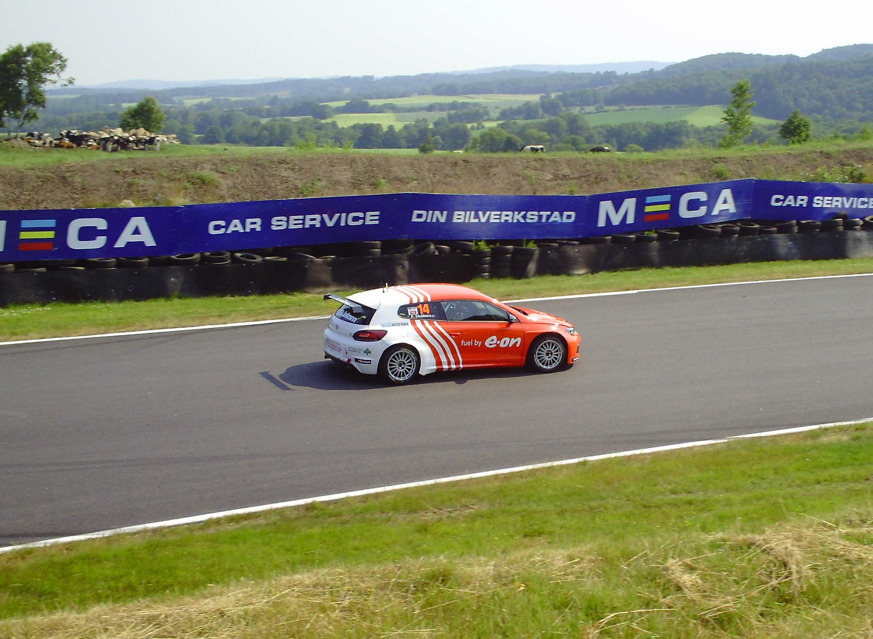 Fredrik Ekblom in a Volkswagen Scirocco in Swedish Touring Car Championship at Falkenbergs Motorbana 2010.